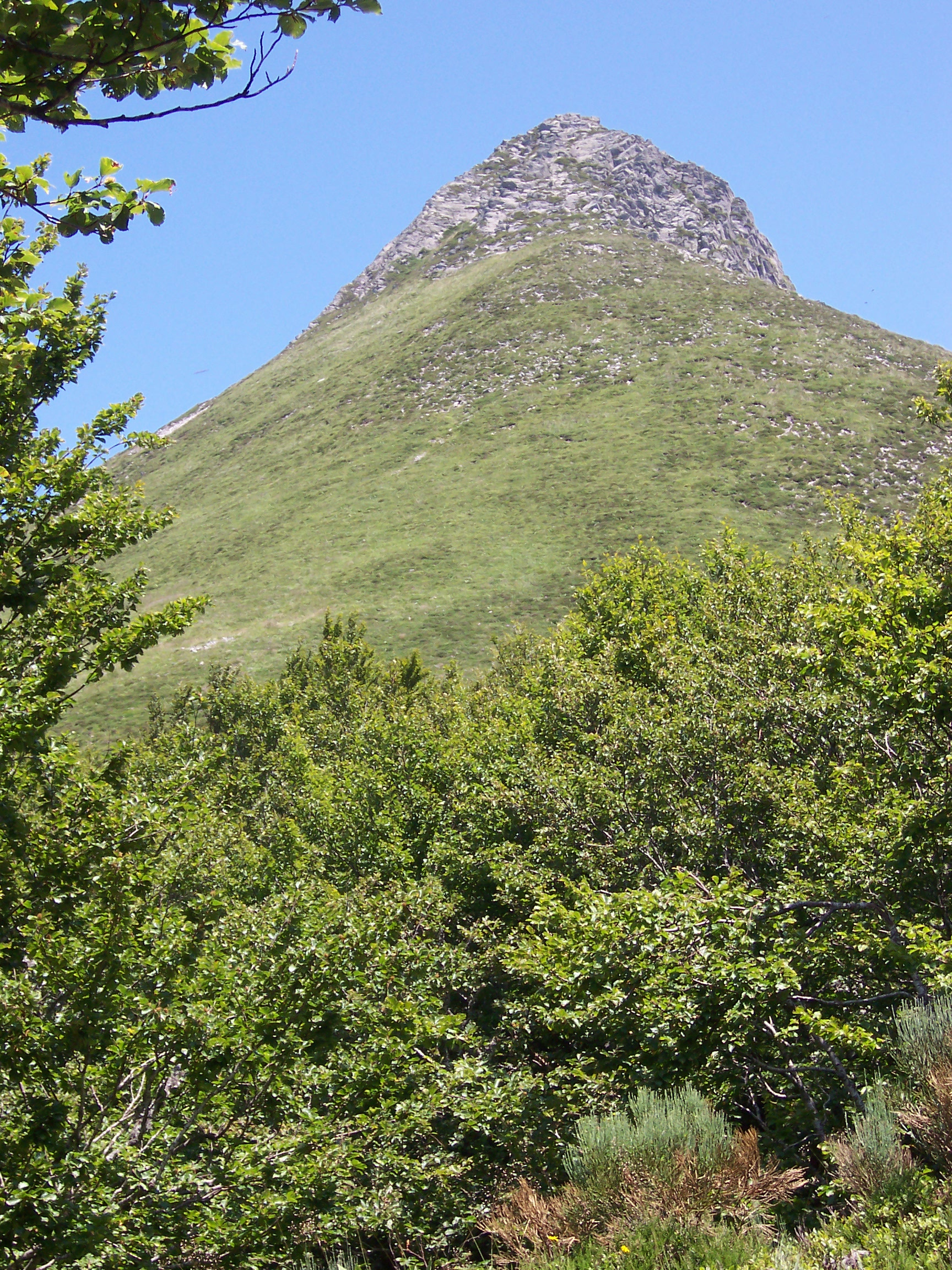 The Puy Griou : a phonolitic protrusion making one of the summits (1694 m) of the Monts du Cantal mountains (France)